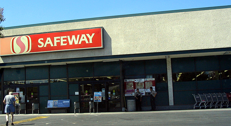 A Safeway Inc. supermarket in San Jose. This rather plain (by today's standards), boxy store design was typical in the 1970s and 1980s. Photographed by user Coolcaesar on August 3, 2005.